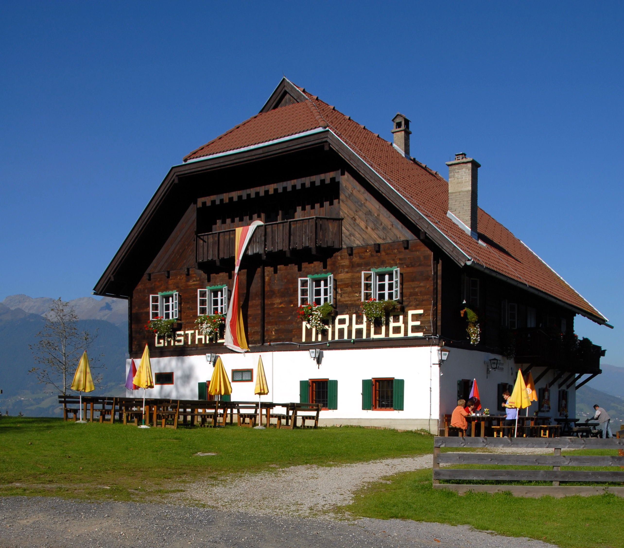 Rest-house near the ruin of castle Ortenburg in the community of Baldramsdorf, Carinthia, Austria